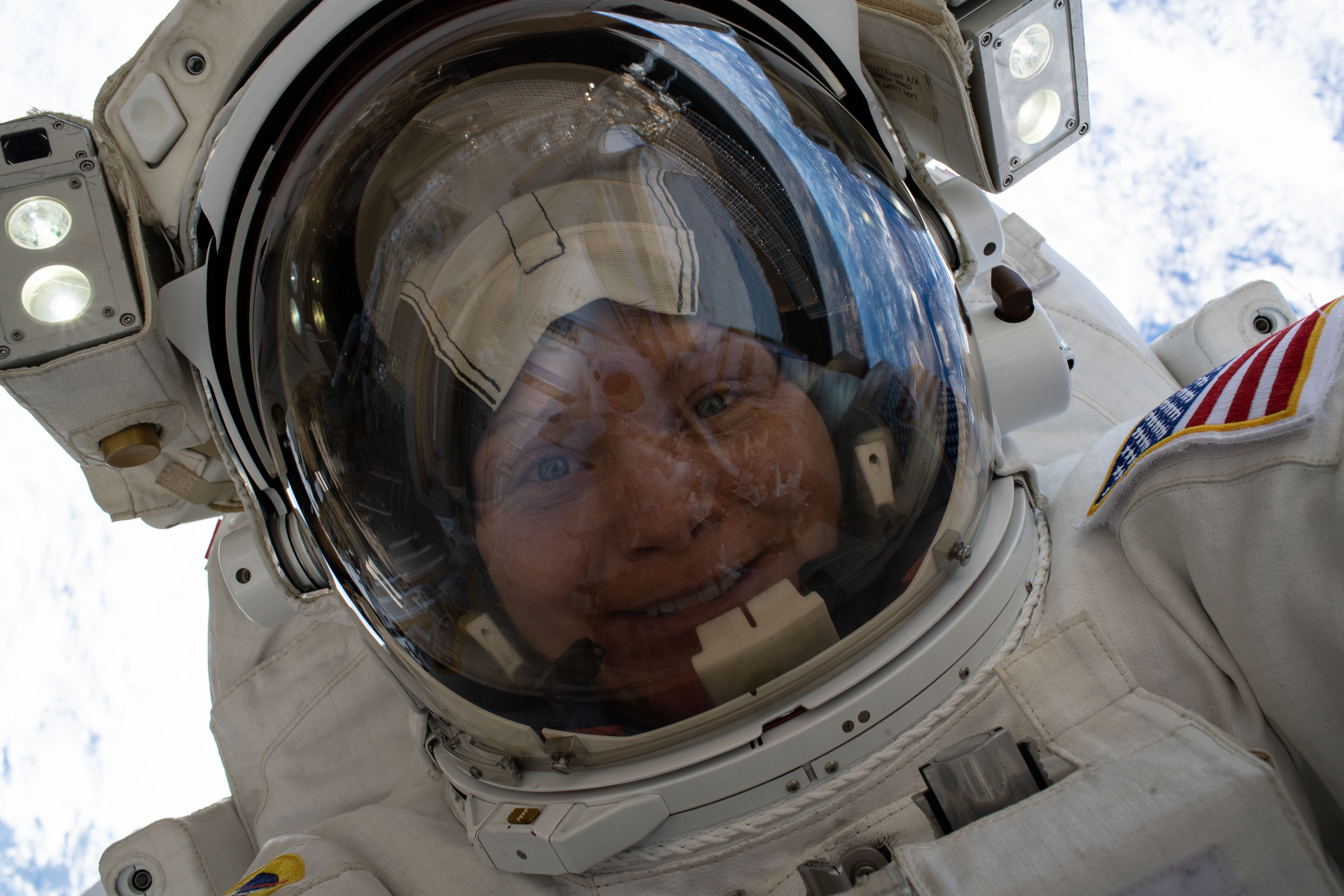 NASA astronaut Anne McClain takes a "space-selfie" with her helmet visor up 260 miles above the Earth's surface during a six-hour, 39-minute spacewalk to upgrade the orbital complex's power storage capacity.